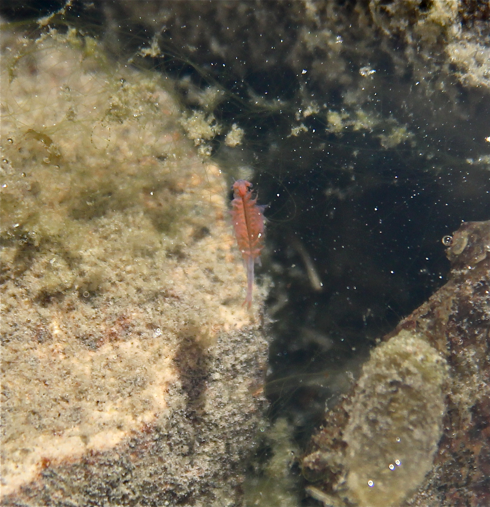 Chirocephalus marchesonii